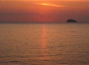 photo of sea